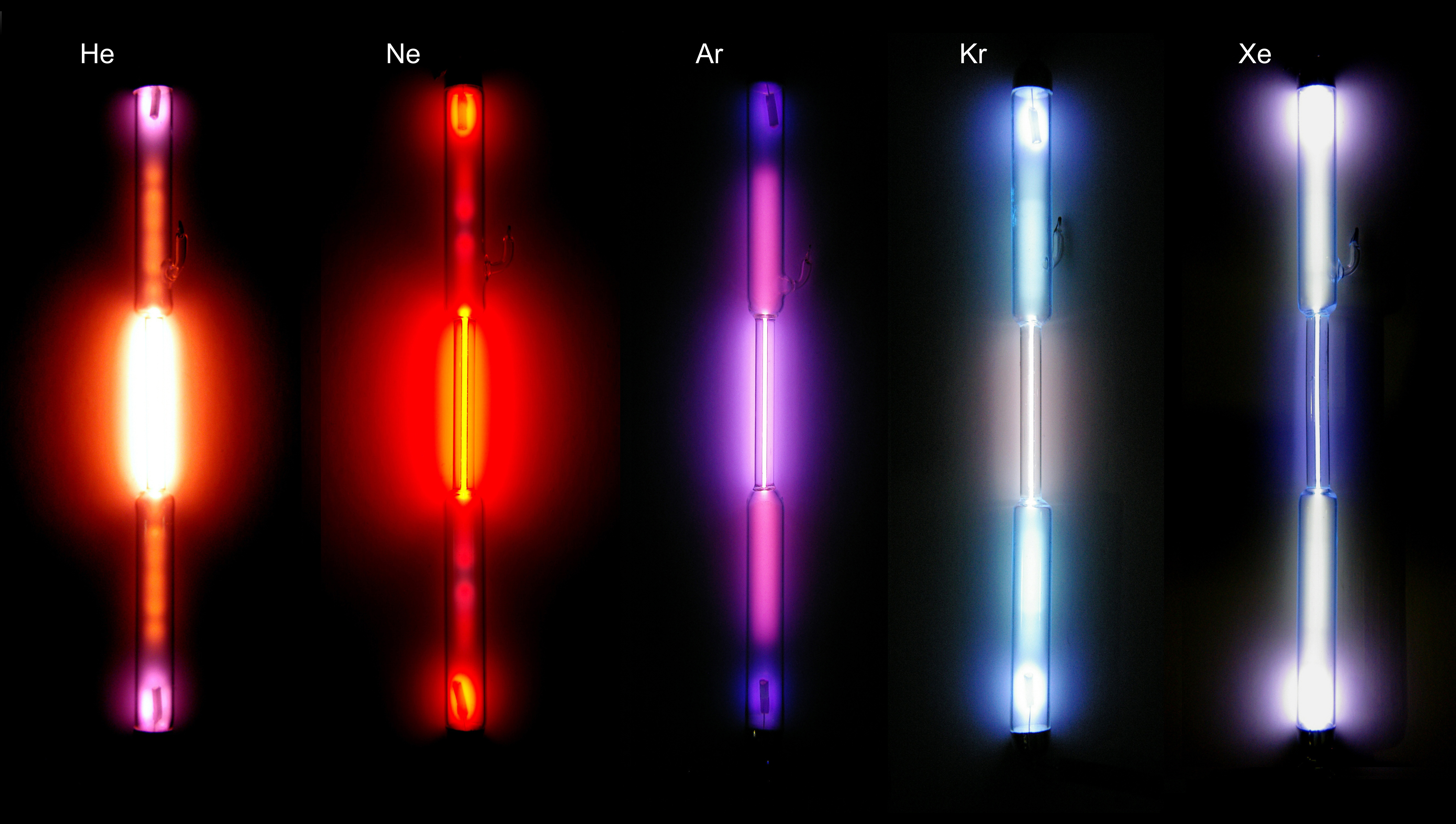 Spectrum = gas discharge tubes: the noble gases: helium He, neon Ne, argon Ar, krypton Kr, xenon Xe. Used with 1,8kV, 18mA, 35kHz. ≈8" length.